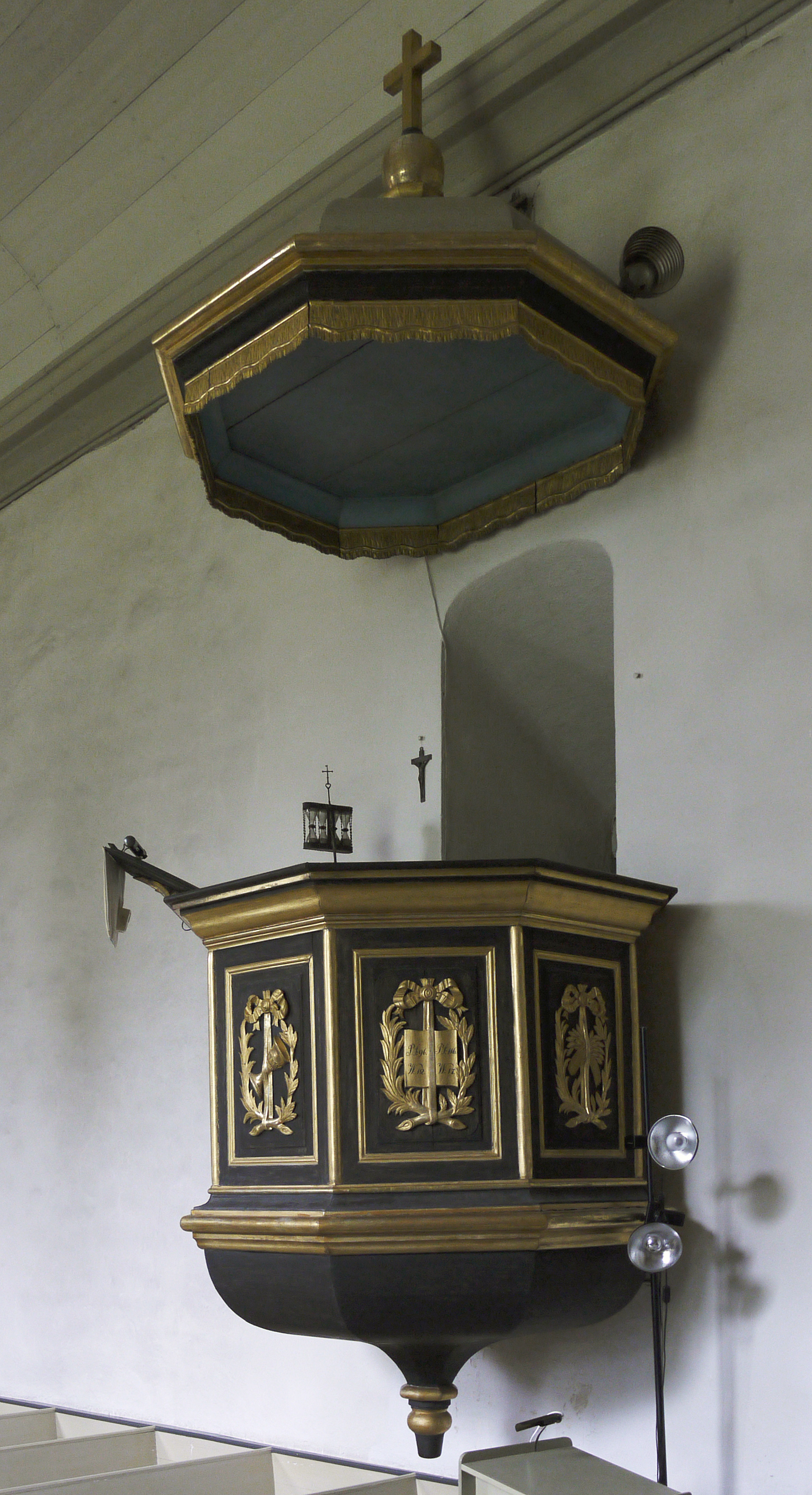 Bjälbo church, Mjölby kommun, Diocese of Linköping, Sweden. Pulpit.